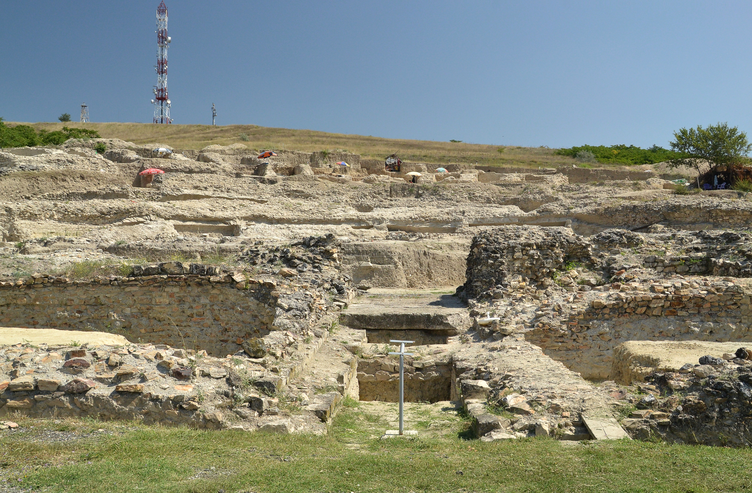 Skupi - ruins near Skopje, Macedonia